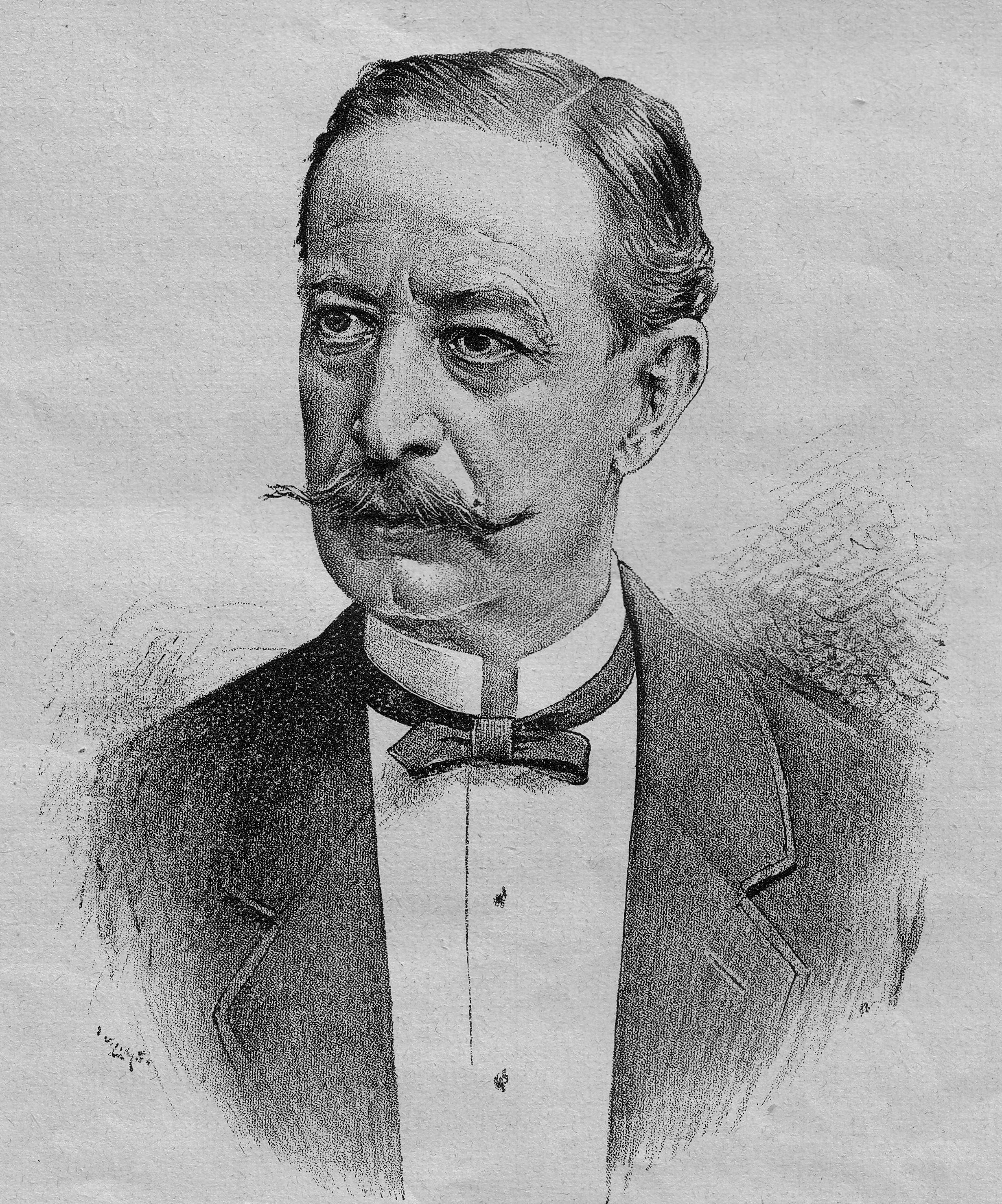 Božo Bošković (1815-1879), Serbian merchant from Dubrovnik and benefactor. Taken from the 1893 edition of the calendar Orao. Srpski (latinica): Božo Bošković (1815-1879), srpski trgovac iz Dubrovnika i dobrotvor. Preuzeto iz izdanja kalendara Orao za 1893. godinu.